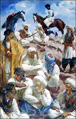 Afghans, a painting by Alexandre Iacovleff